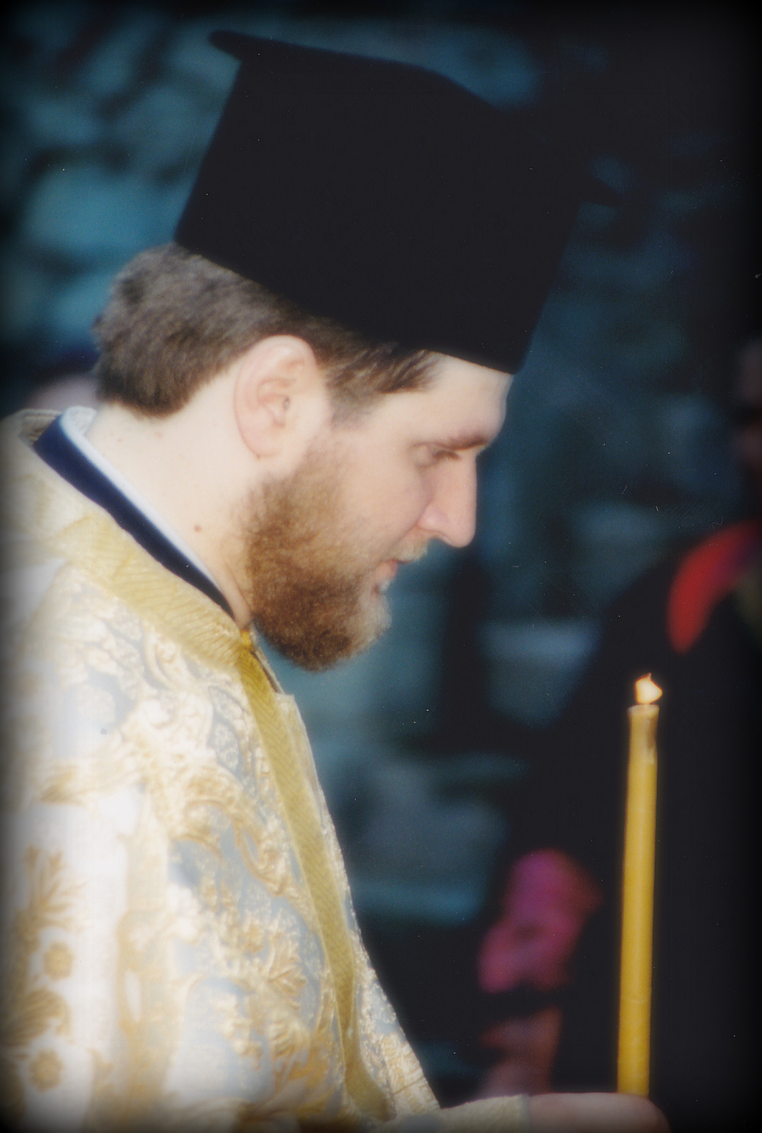 Priest in Greece